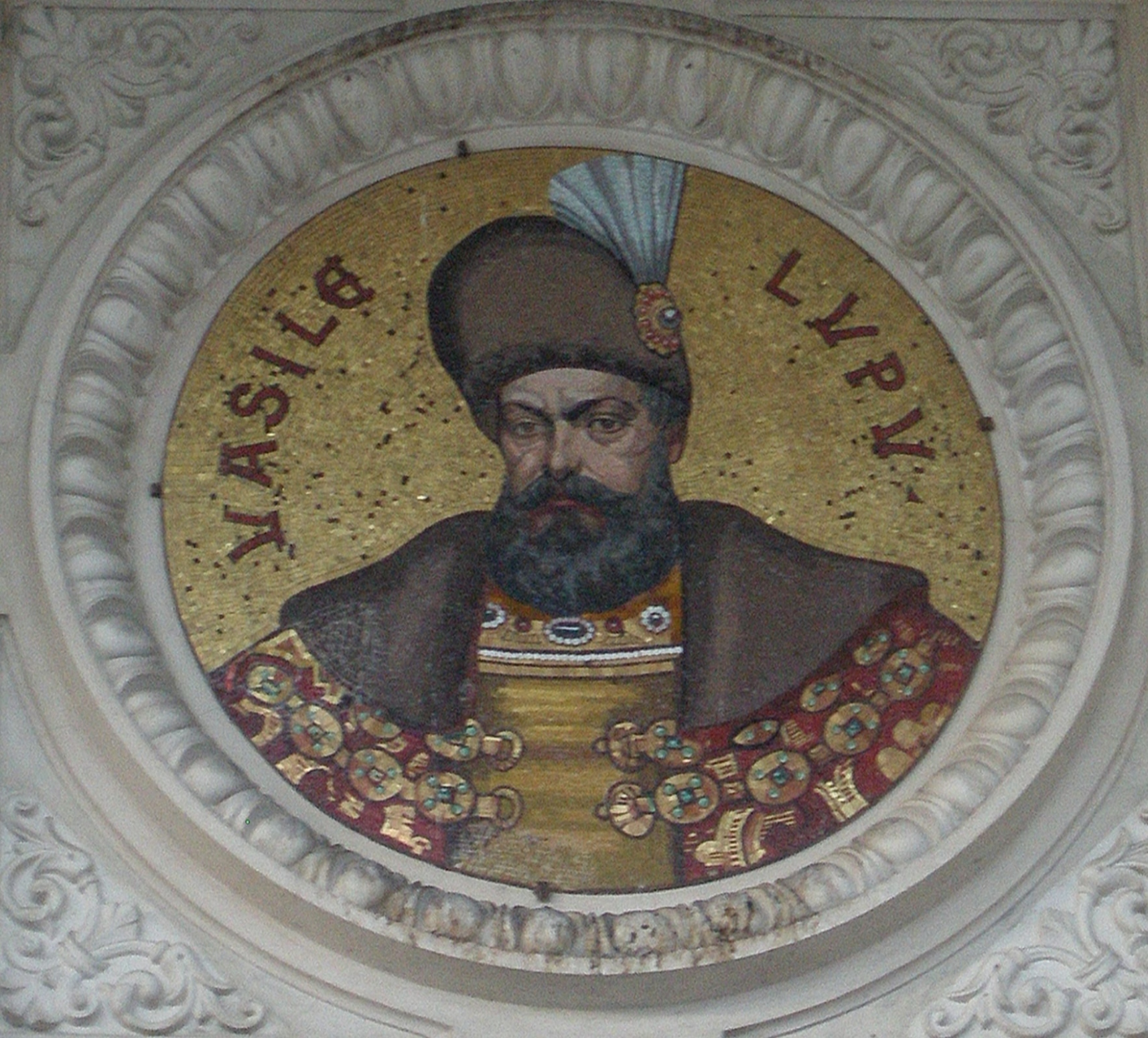 Vasile Lupu, painting from Ateneul Român, Bucuresti